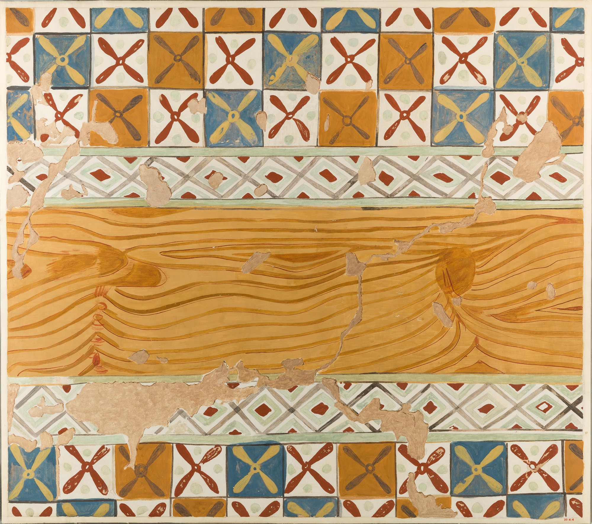 Facsimile, Tetiky (TT 15), ceiling